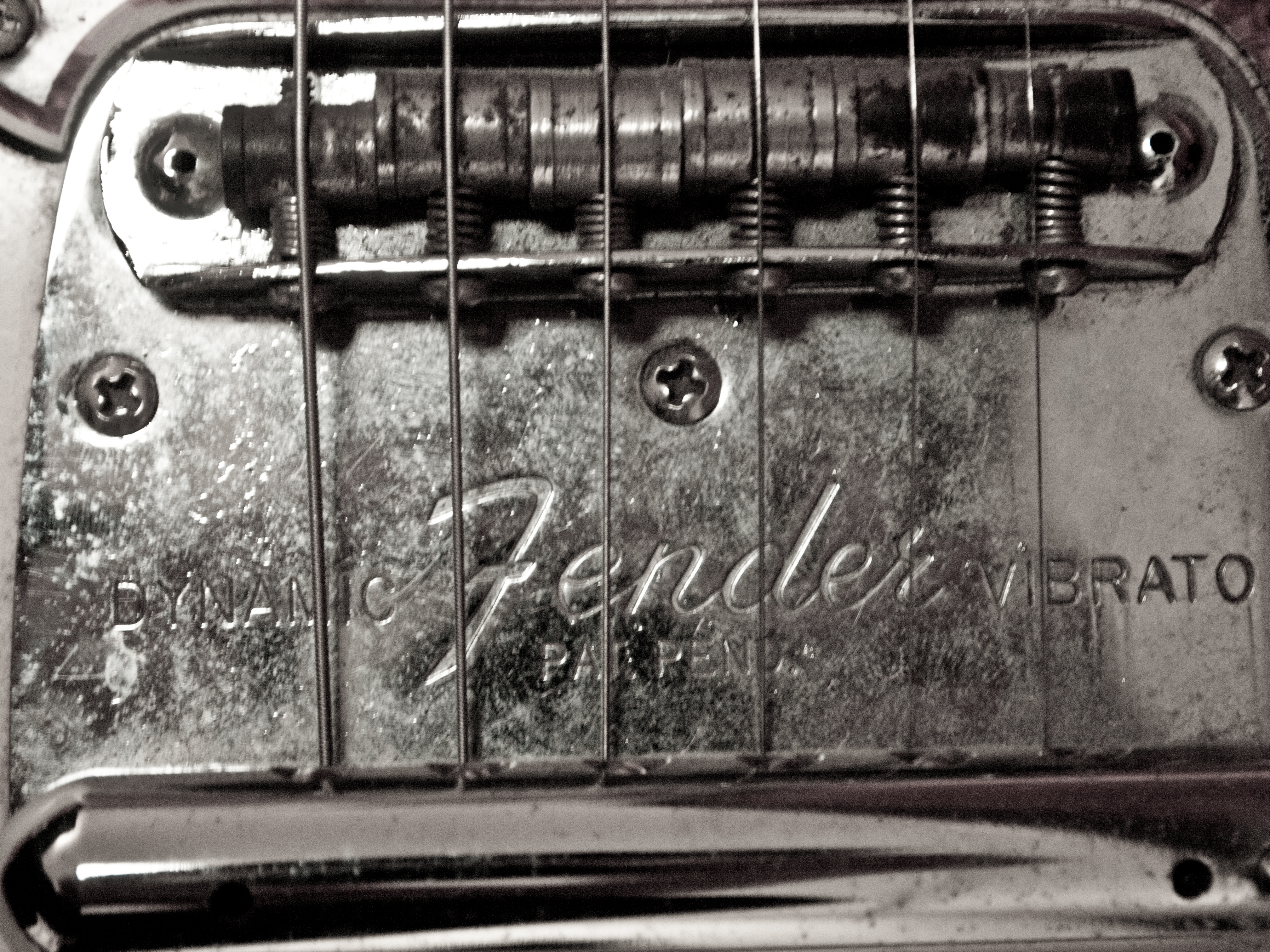 Dynamic Vibrato of late 1970's Fender Mustang